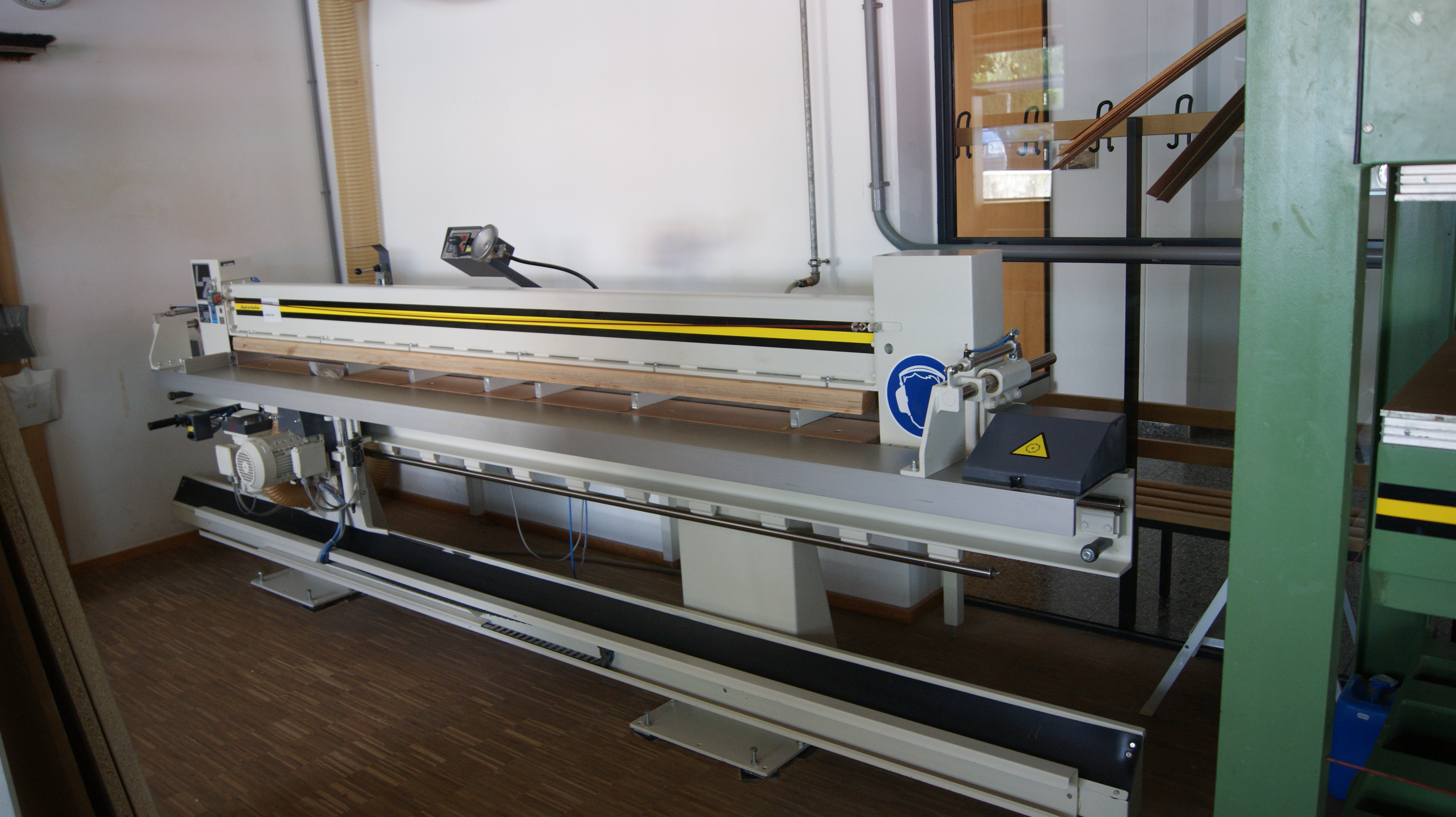 Vocational school Dornbirn I in Dornbirn, Vorarlberg, Austria. Veneer saw Langzauner from Lambrechten, LZ 5/2 3050, year of construction: February 2005